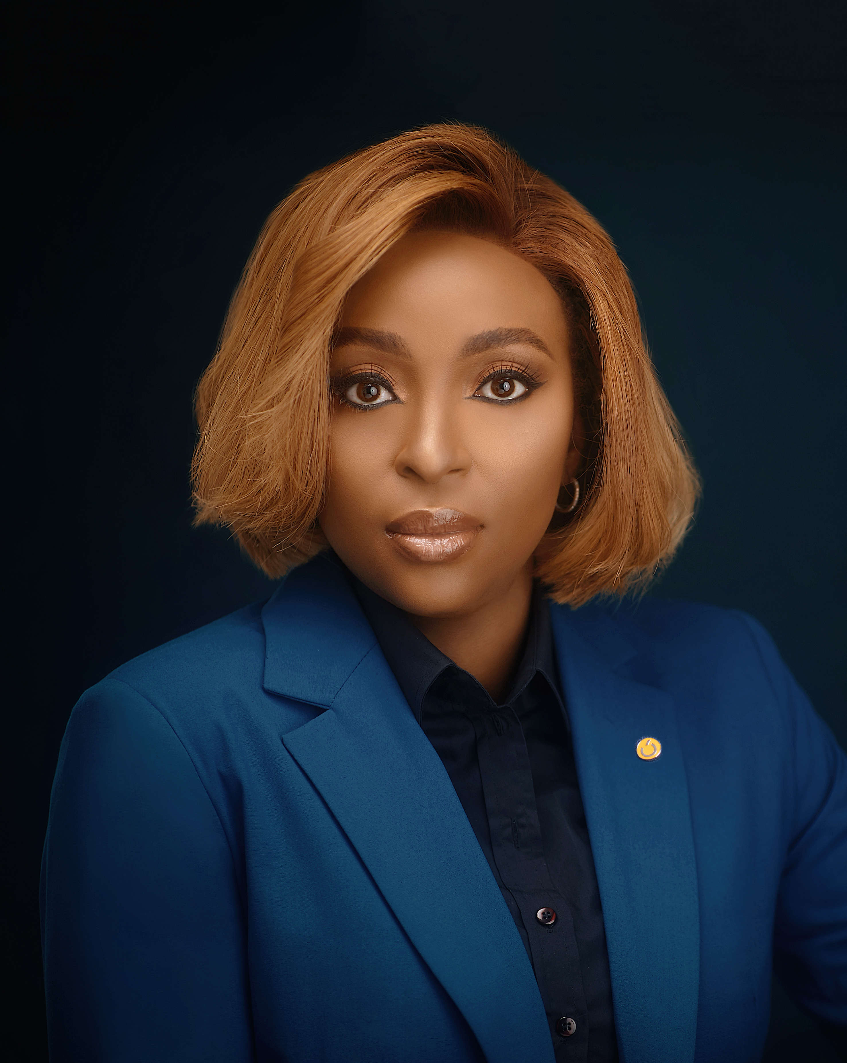 Owen Omogiafo official portrait Transcorp Plc